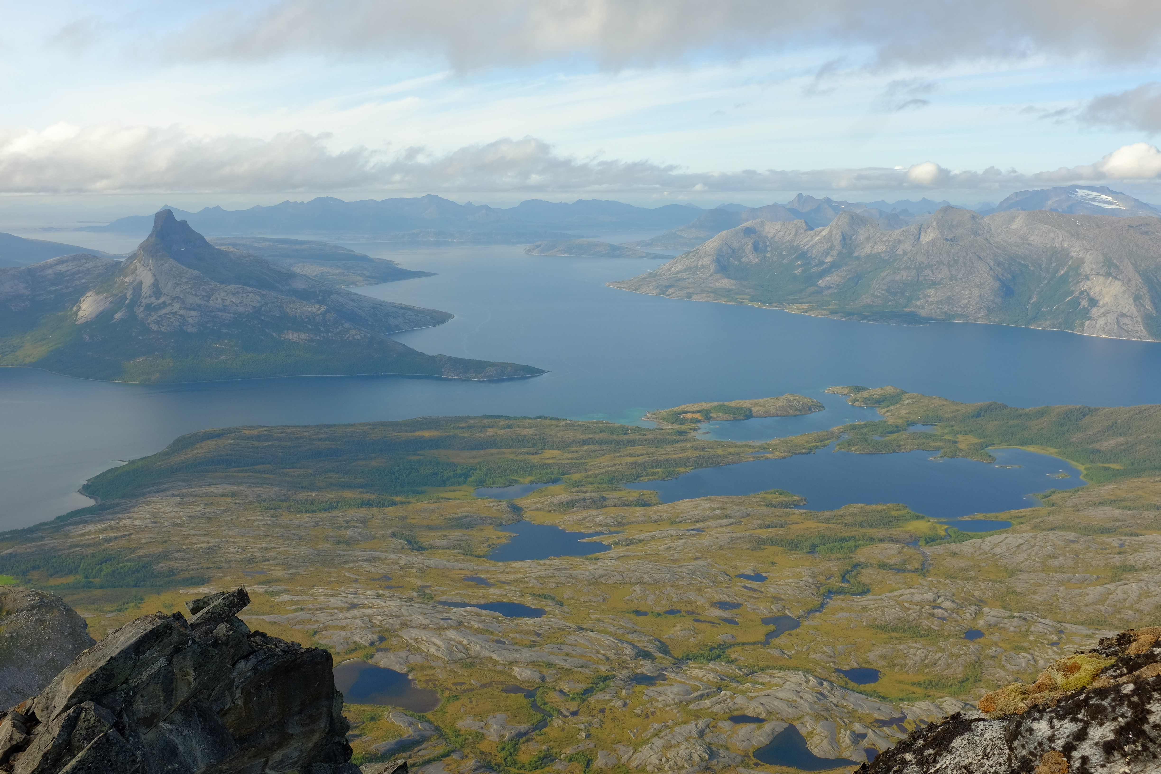 Sørfolda is a fjord in Nordland county. The 40 kilometer Sørfolda is a southeastern branch of the main Folda fjord. Sjunkhatten nasjonalpark ble opprettet i 2010. Parken består av et 417,5 kvadratkilometer kontinuerlig beskyttet område. Parken ligger på en halvøy mellom Sørfolda-fjorden og Saltfjorden, inkludert breformet landskap, huler og vannsystemer, fjorder, sjeldne dyrearter og kulturarv.